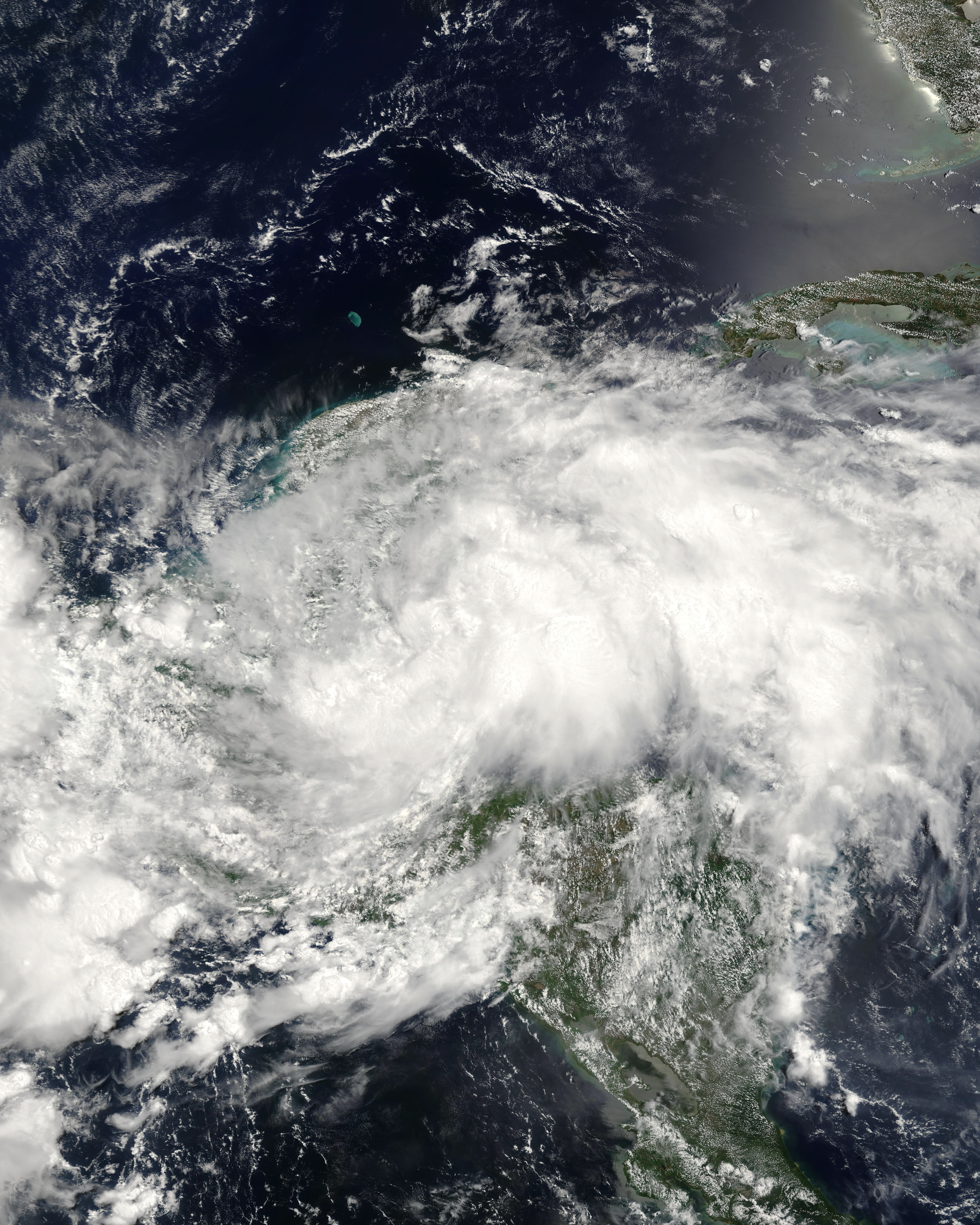 Tropical Storm Arthur (2008) as seen from Aqua Satellite on 2008-05-31.